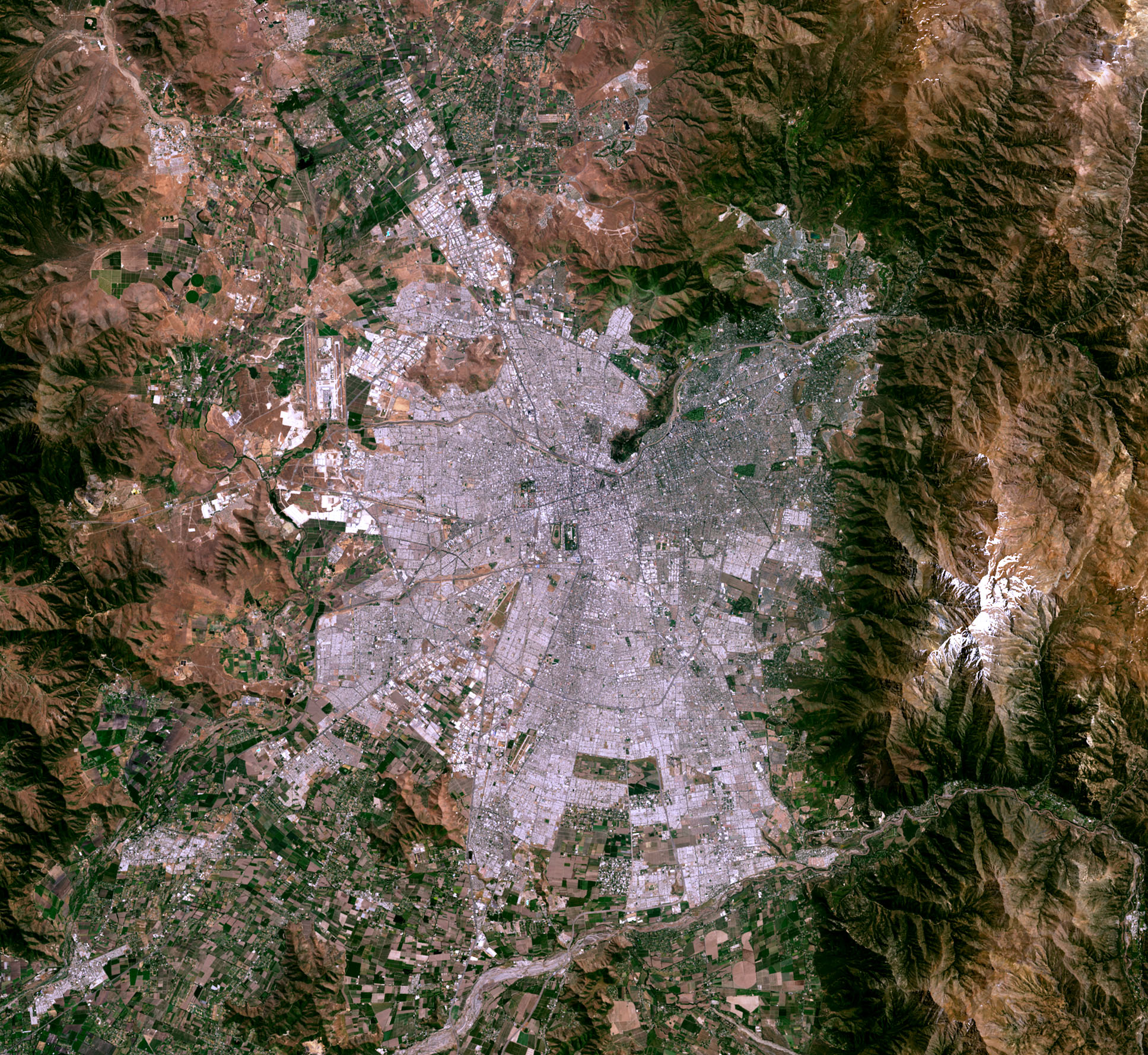 Satellite image of Santiago, Chile taken by Landsat 8 on October 24, 2014. Bands 4, 3 and 2 were used.